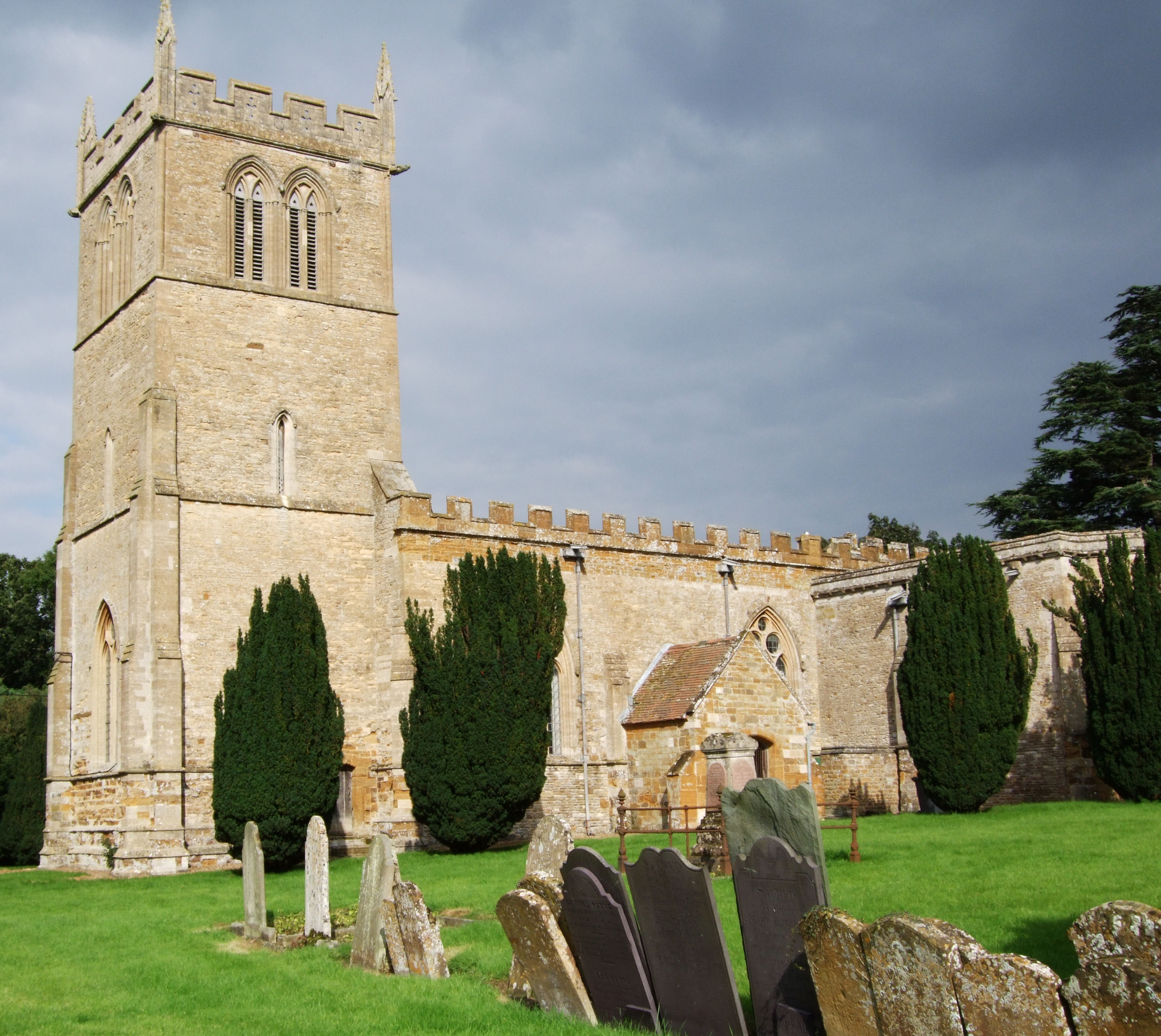 All Saints' parish church, Cottesbrooke, Northamptonshire, seen from the southwest